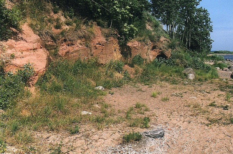 The red stone of sand is typical of Kallaste on Estonia. The white on the front of the picture is the lot of shells.